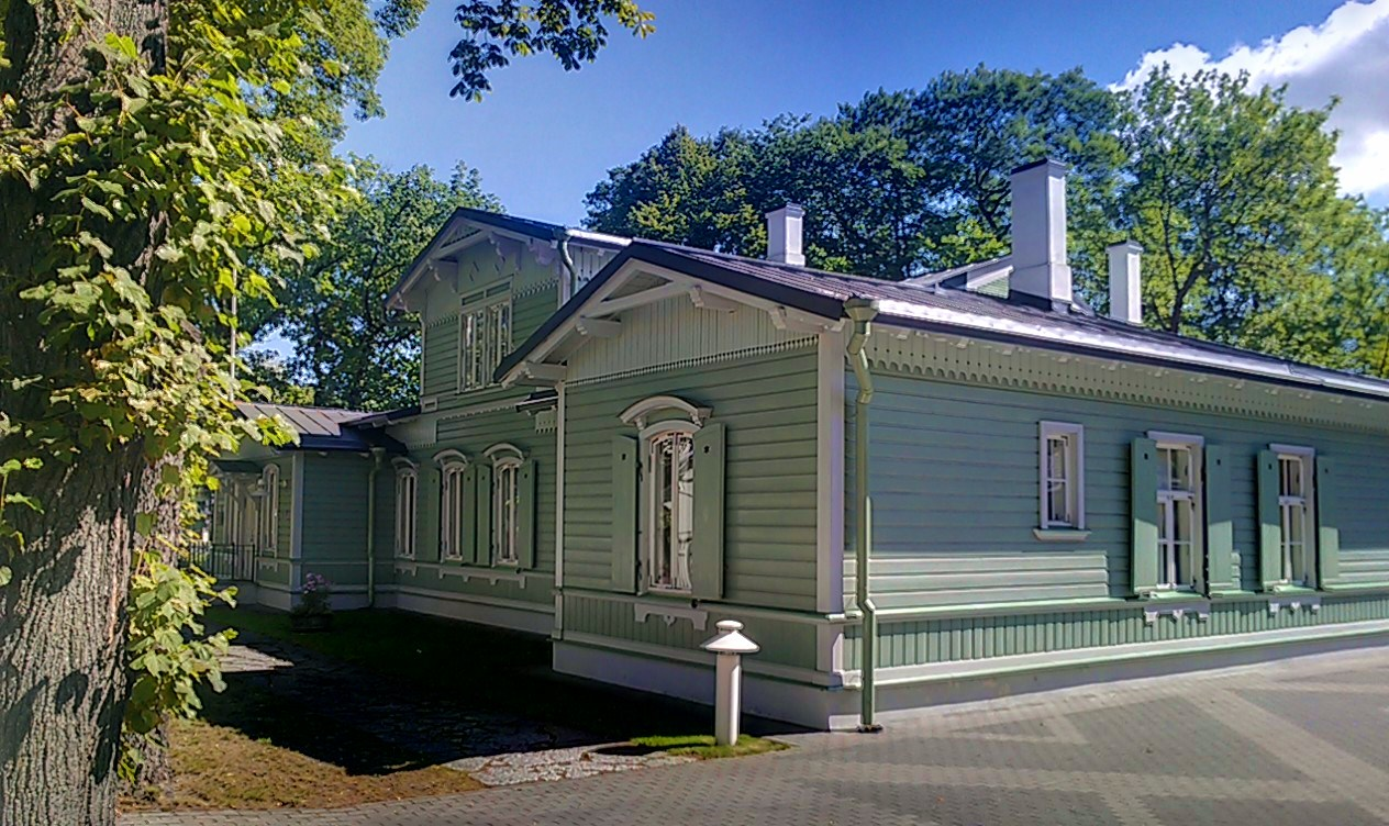 The house in which the Estonian politician Jaan Poska once lived; it is located in J. Poska street, Tallinn.